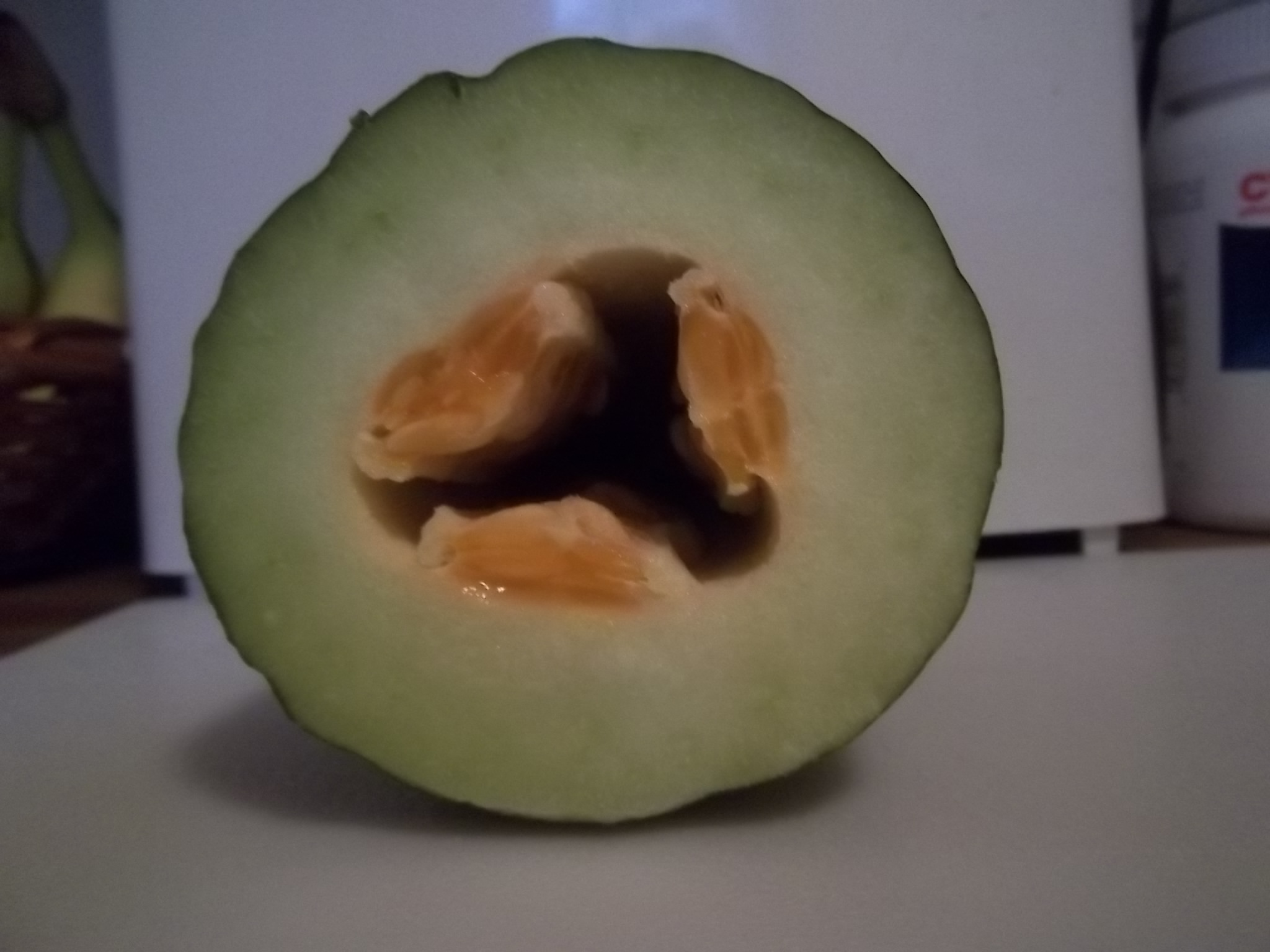 This is a cut cross-section of an Armenian cucumber